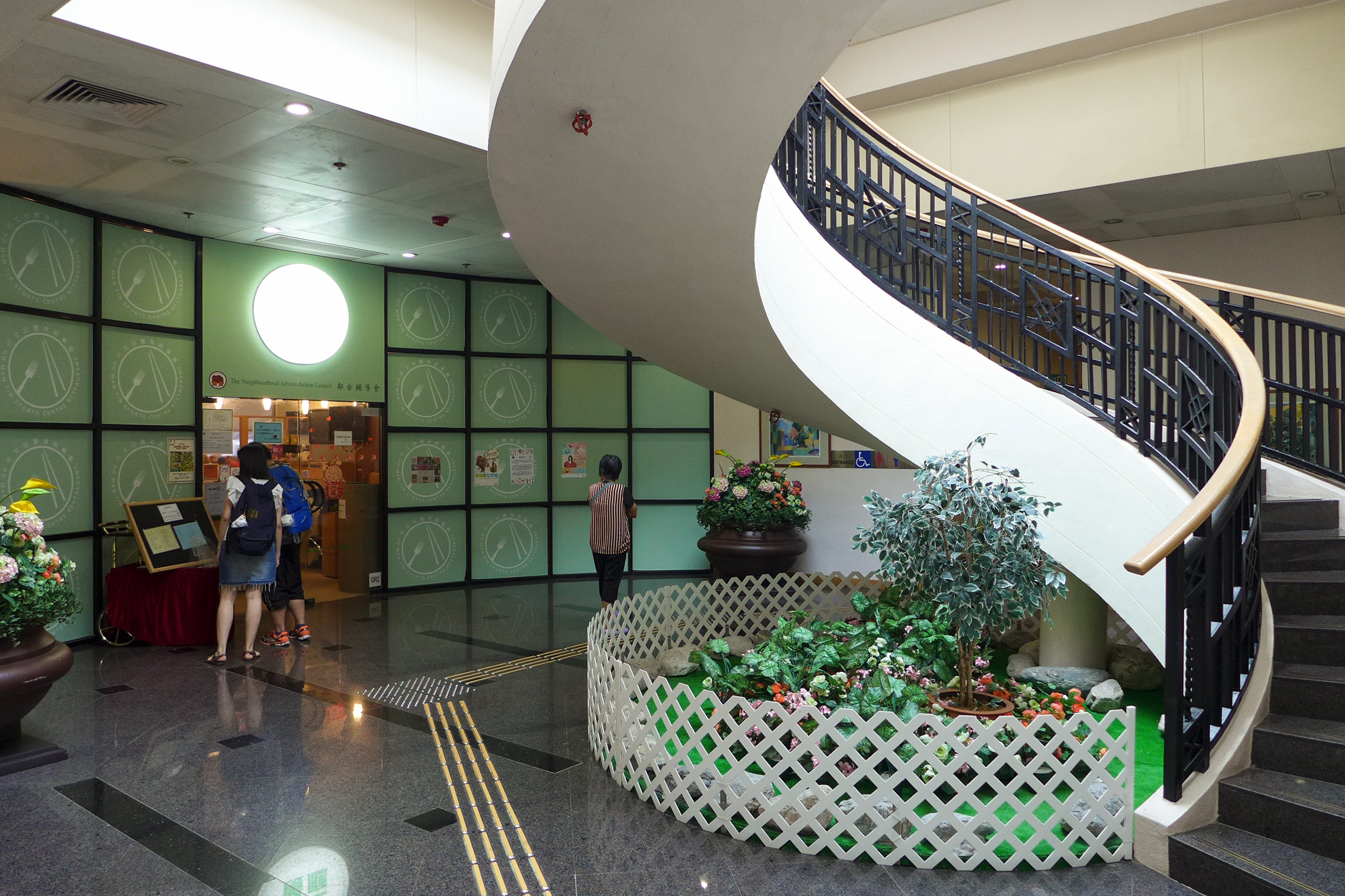 Ho Man Tin Sports Centre